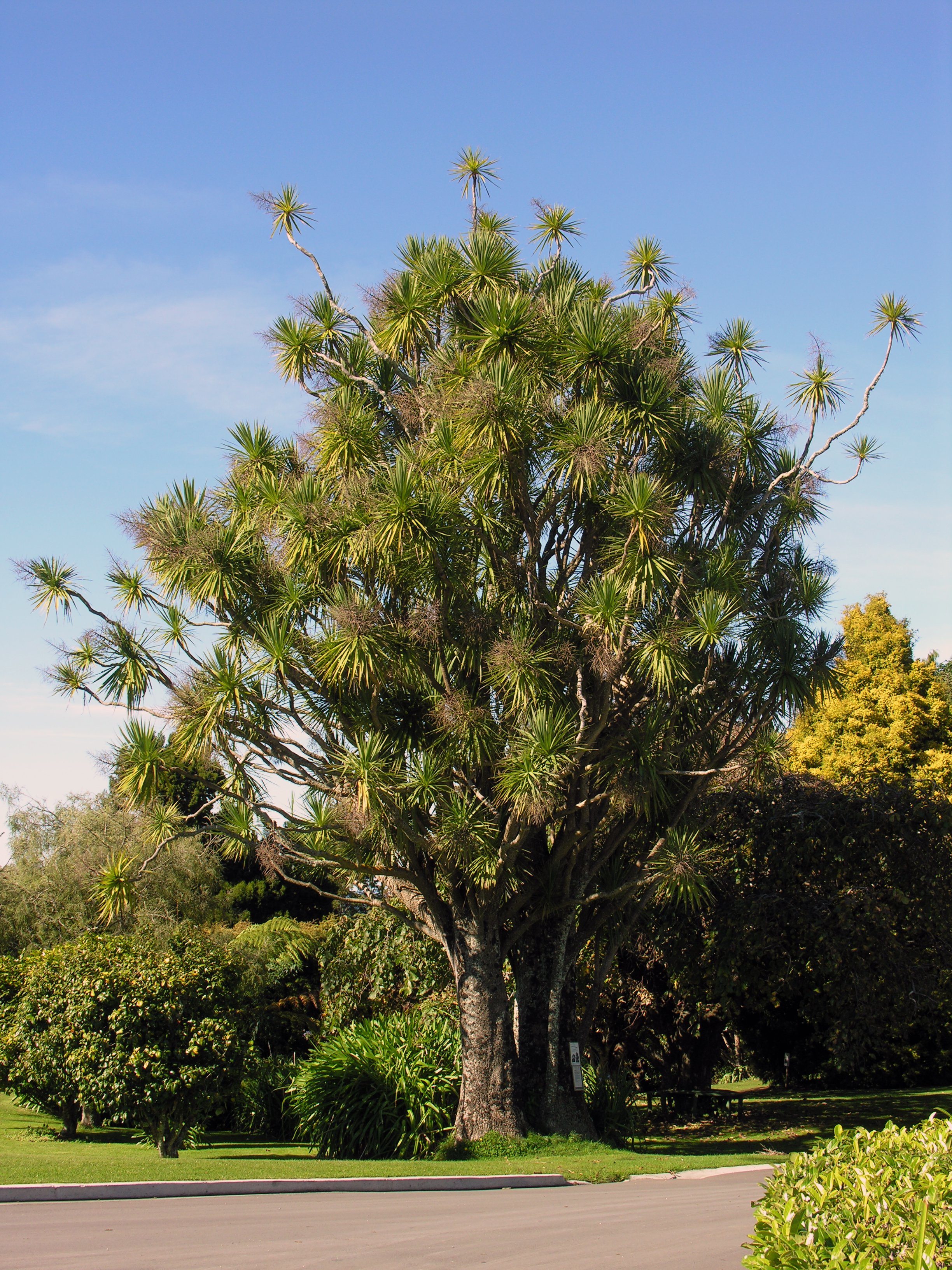 Photo taken in Bushy Park.